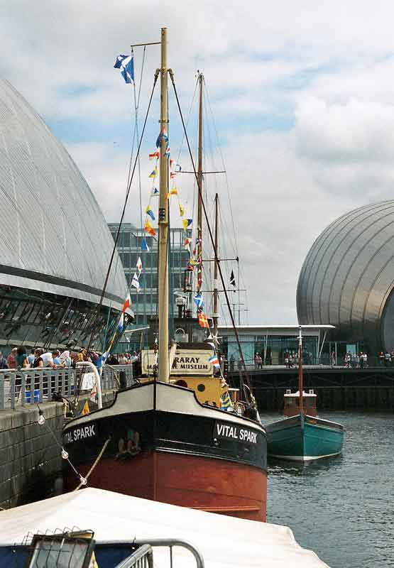 The Clyde Puffer Eilean Eisdeal (built in Hull in 1944) at the Glasgow River Festival in 2005, showing the name Vital Spark in memory of Para Handy's "Smartest boat in the coasting trade" of Merchant shipping.